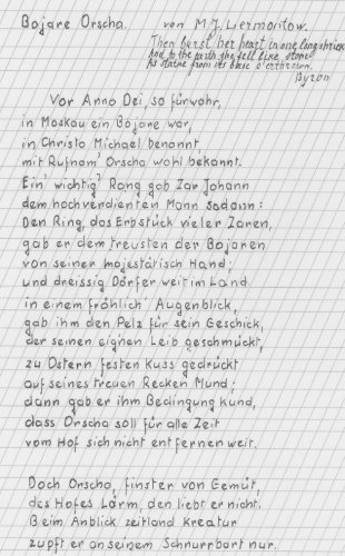 Handwritten translation into German by Jurij Tregubiff of Bojare Orscha